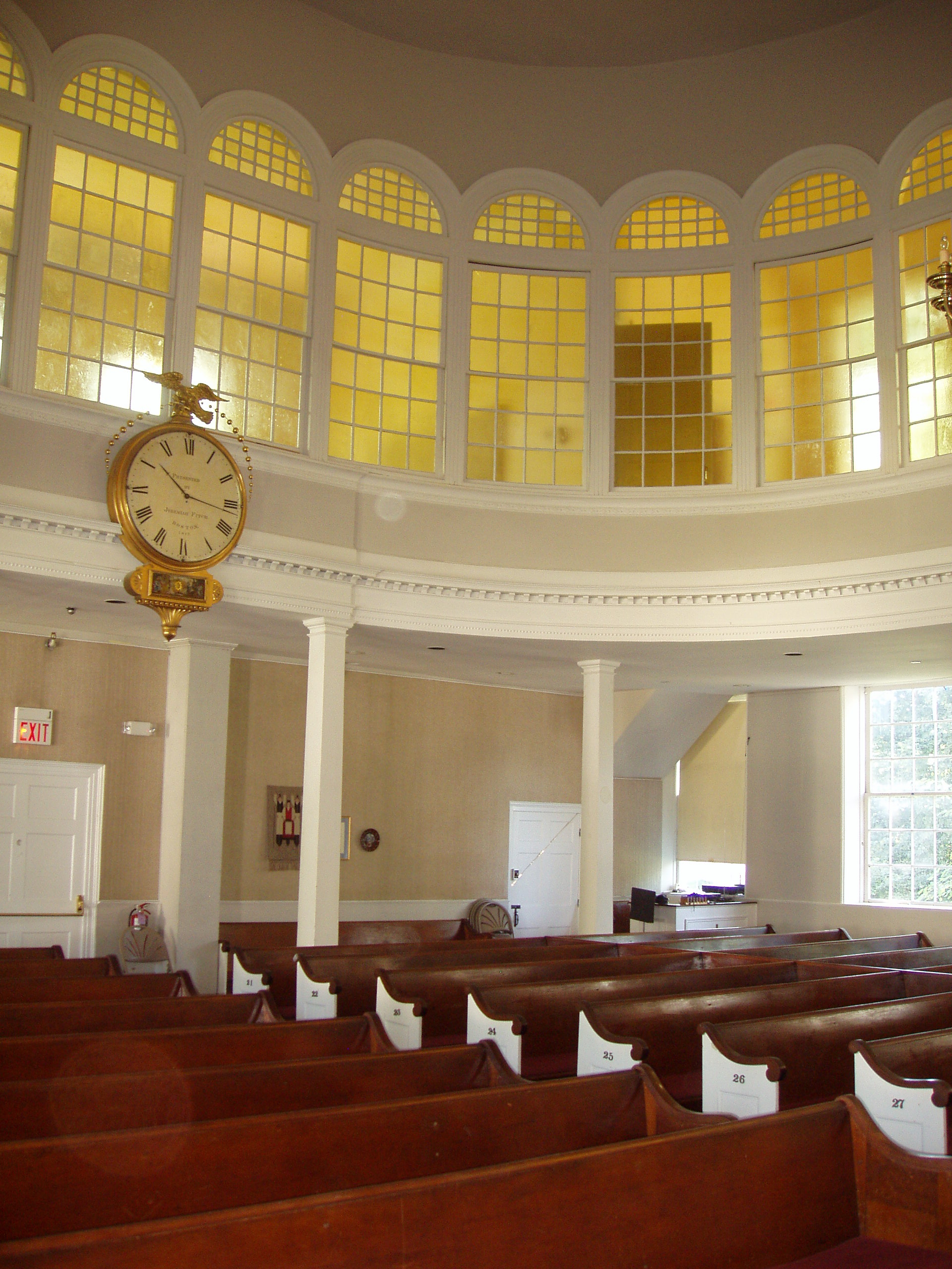 Meeting House of the First Parish Unitarian (interior view). Bedford, Massachusetts. Society organized 1730, building erected 1816. Photograph taken by me, July 2005.